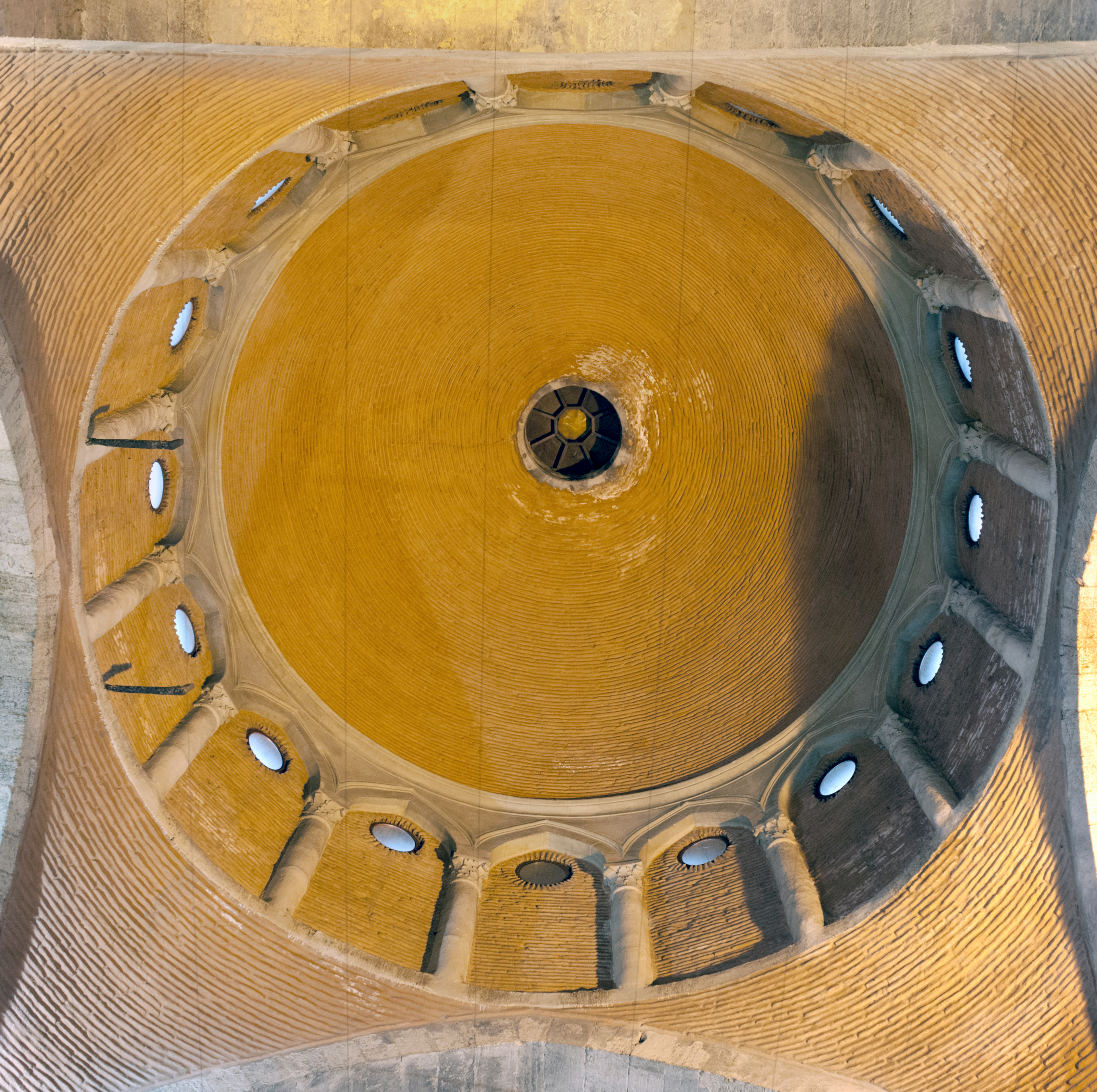 Tophane ("Cannon House"), a principal military foundry in the Ottoman Empire. Today is a center of arts belonging to Mimar Sinan University.Situtated in Tophane, Istanbul, Turkey.